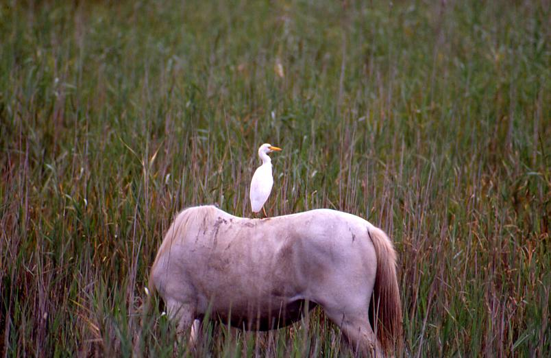 Cattle Egret (Bubulcus ibis) standing on a large animal. Un Airone Guardabuoi sulla schiena di un cavallo camarguese... Scansione da diapositiva.